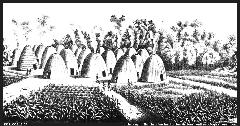 A lithograph of a Wichita Village, probably in Oklahoma, between 1850-1875